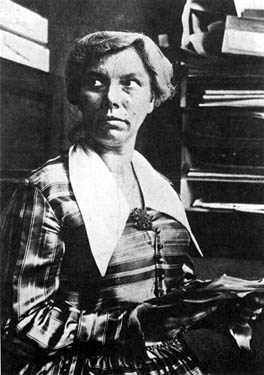 This is a picture taken of Kate Richards O'Hare in 1913, from the Special Collections library at Duke University. Because it was taken in 1913, it is assumed public domain, and was reprinted at